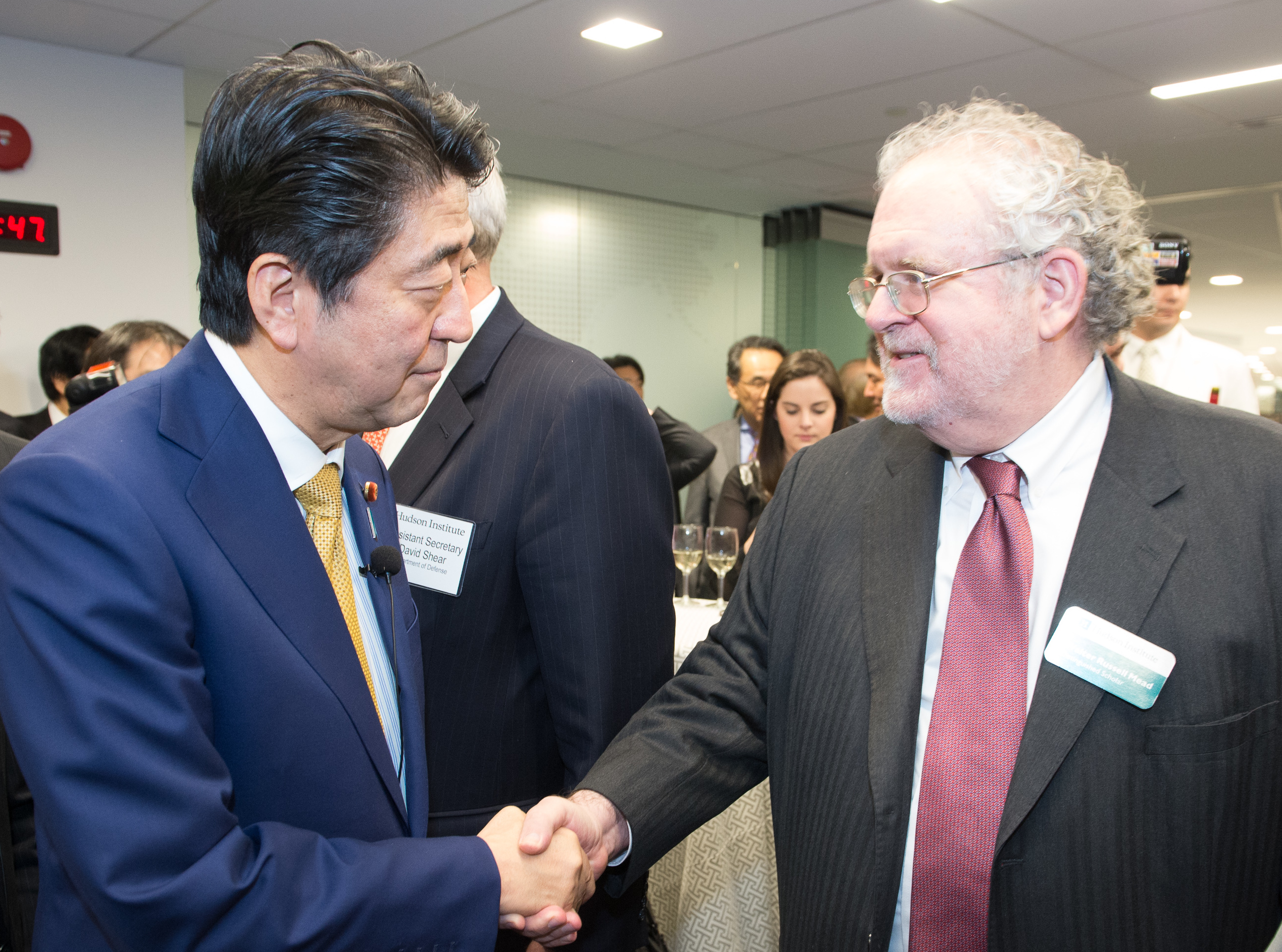 Shinzō Abe and Walter Russell Mead at Grand Opening of Hudson’s New Headquarters 2016